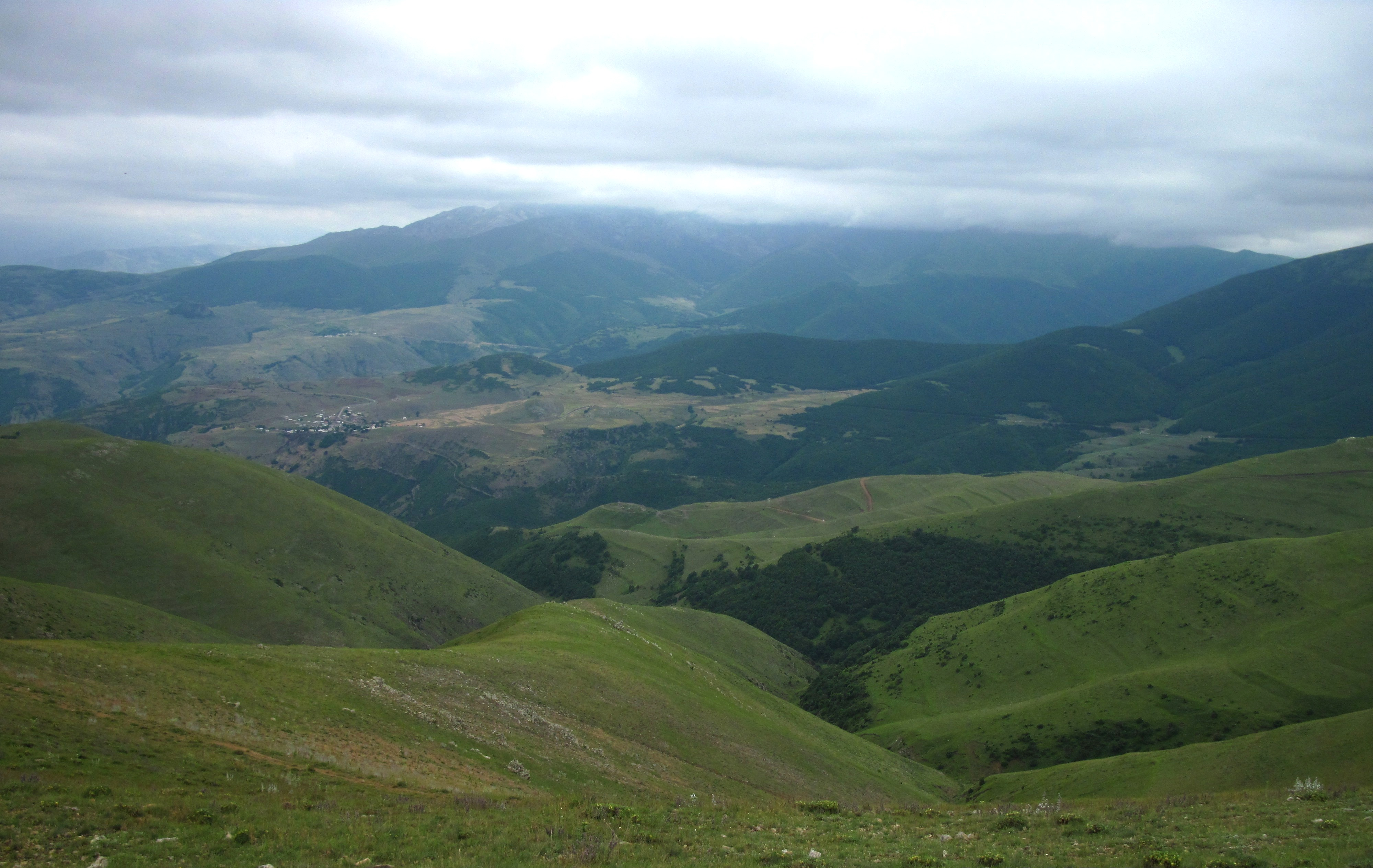 A far view of Oskolou in July 2013